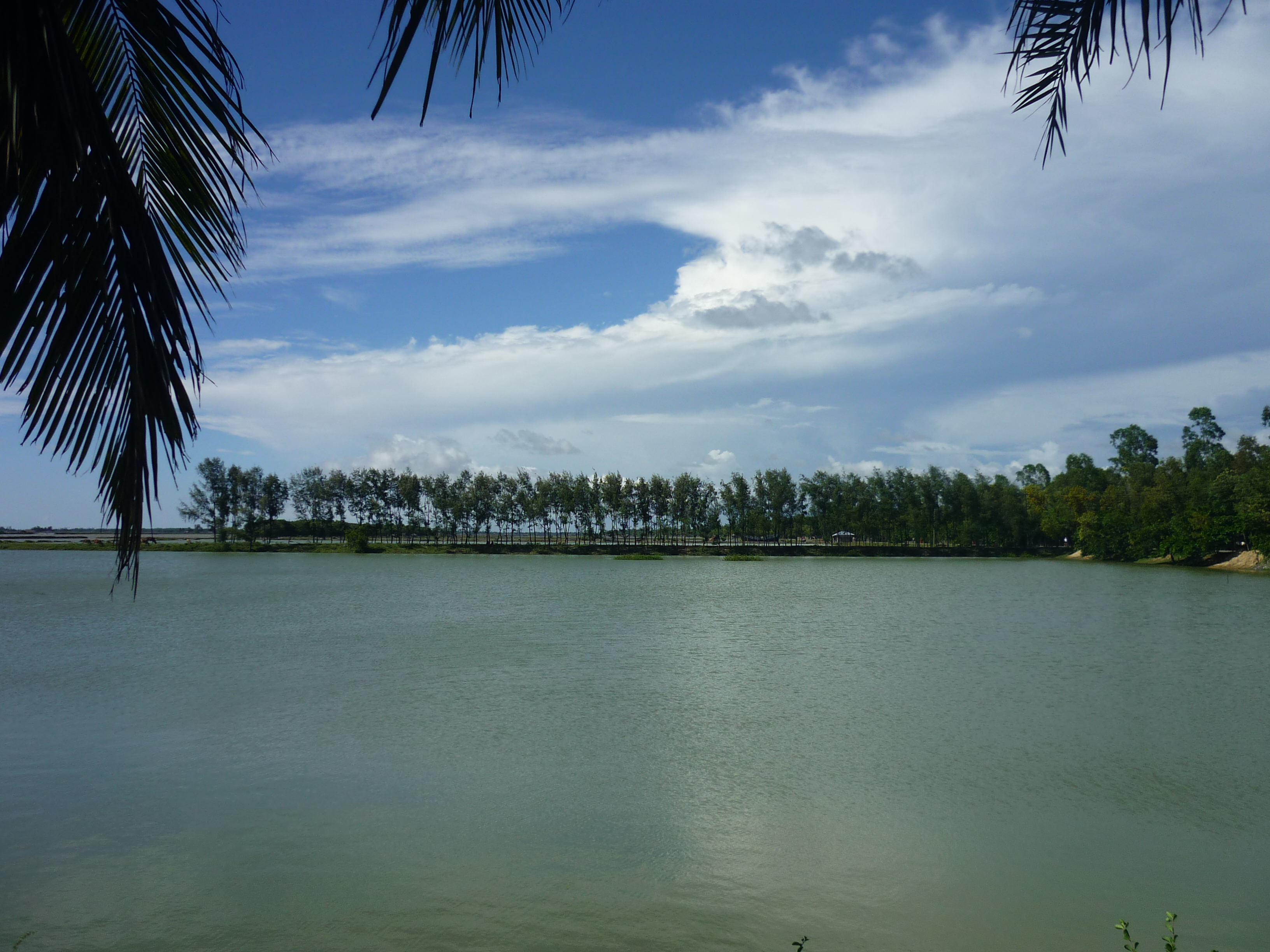 A view of Badarkhali